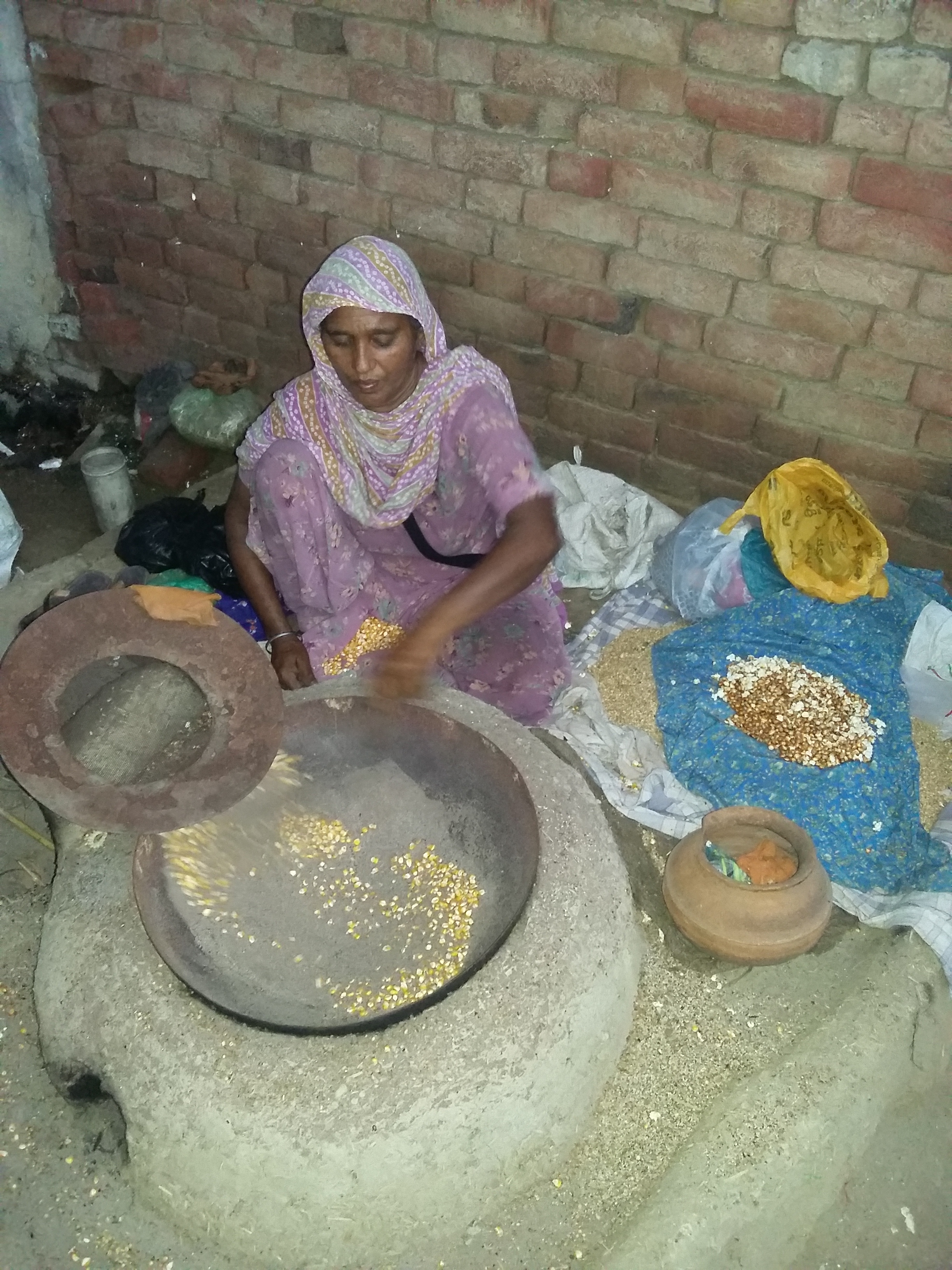 Bhathi Bilaspur Moga Image